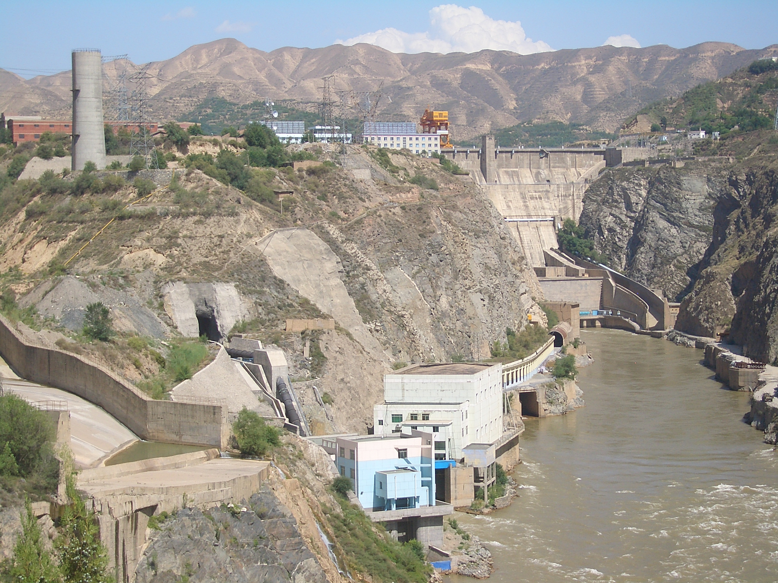 Liujiaxia Dam